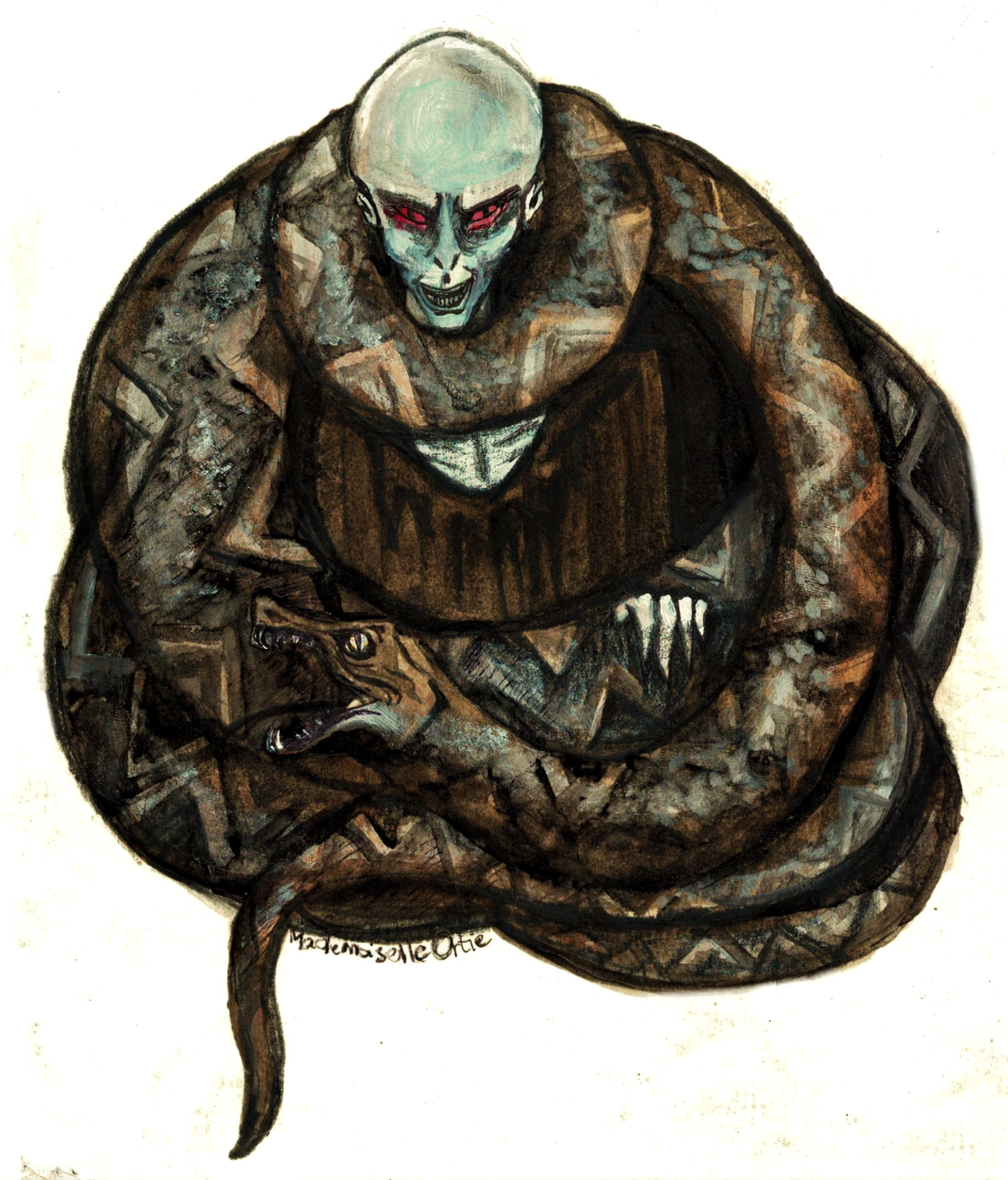 Fan art representing Lord Voldemort and Nagini, from the Harry Potter saga, made with charcoal, acrylics and watercolours by Mademoiselle Ortie aka Elodie Tihange This drawing is not affected by any copyright infringement. See the discussion that previously decided on its conservation.